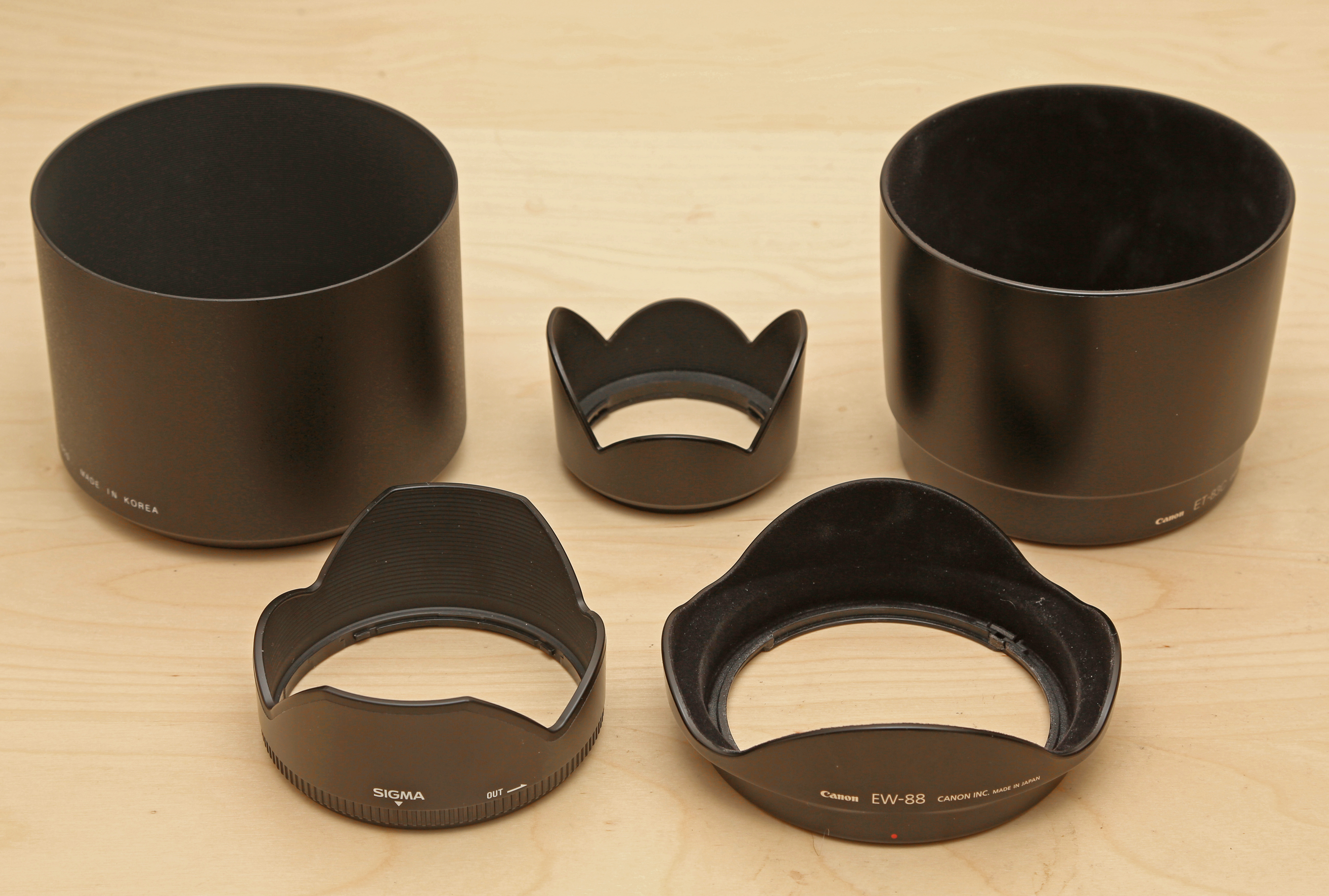 Photo of five lens hoods for a mix of lenses.